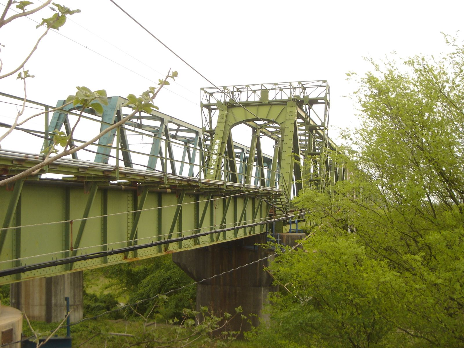 Kisogawa kyoryo(Bridge for train) over Kiso River(木曽川橋梁 (東海道本線)),Kasamatsu,Gifu,Japan(岐阜県笠松町)で右岸下流より撮影